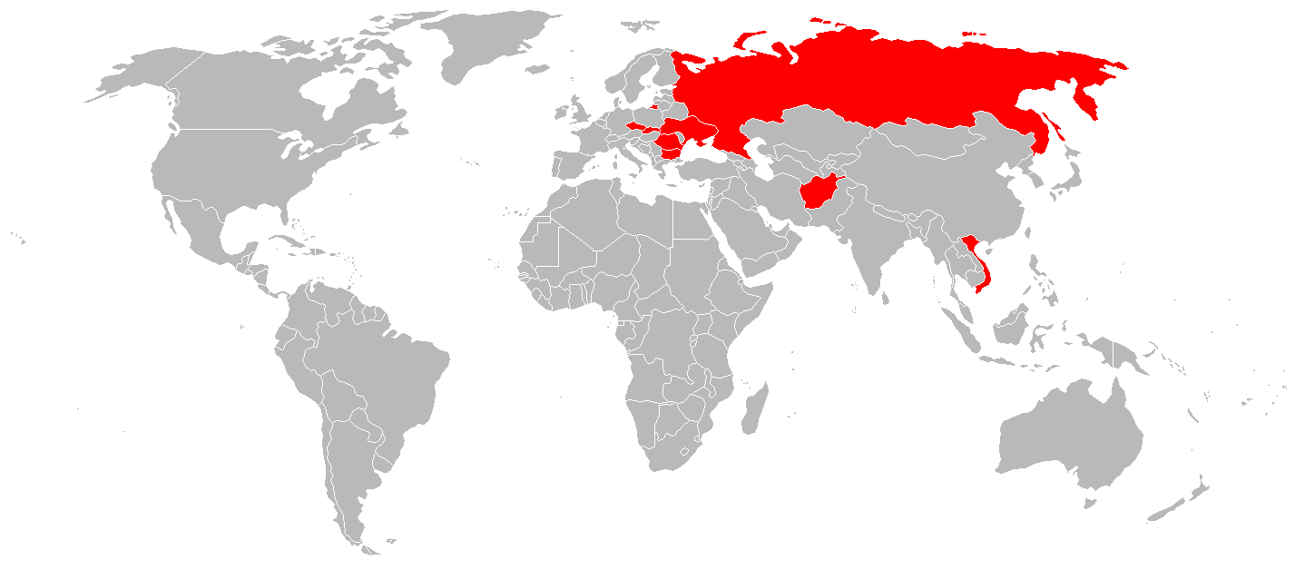 World map of Antonov An-30 operators